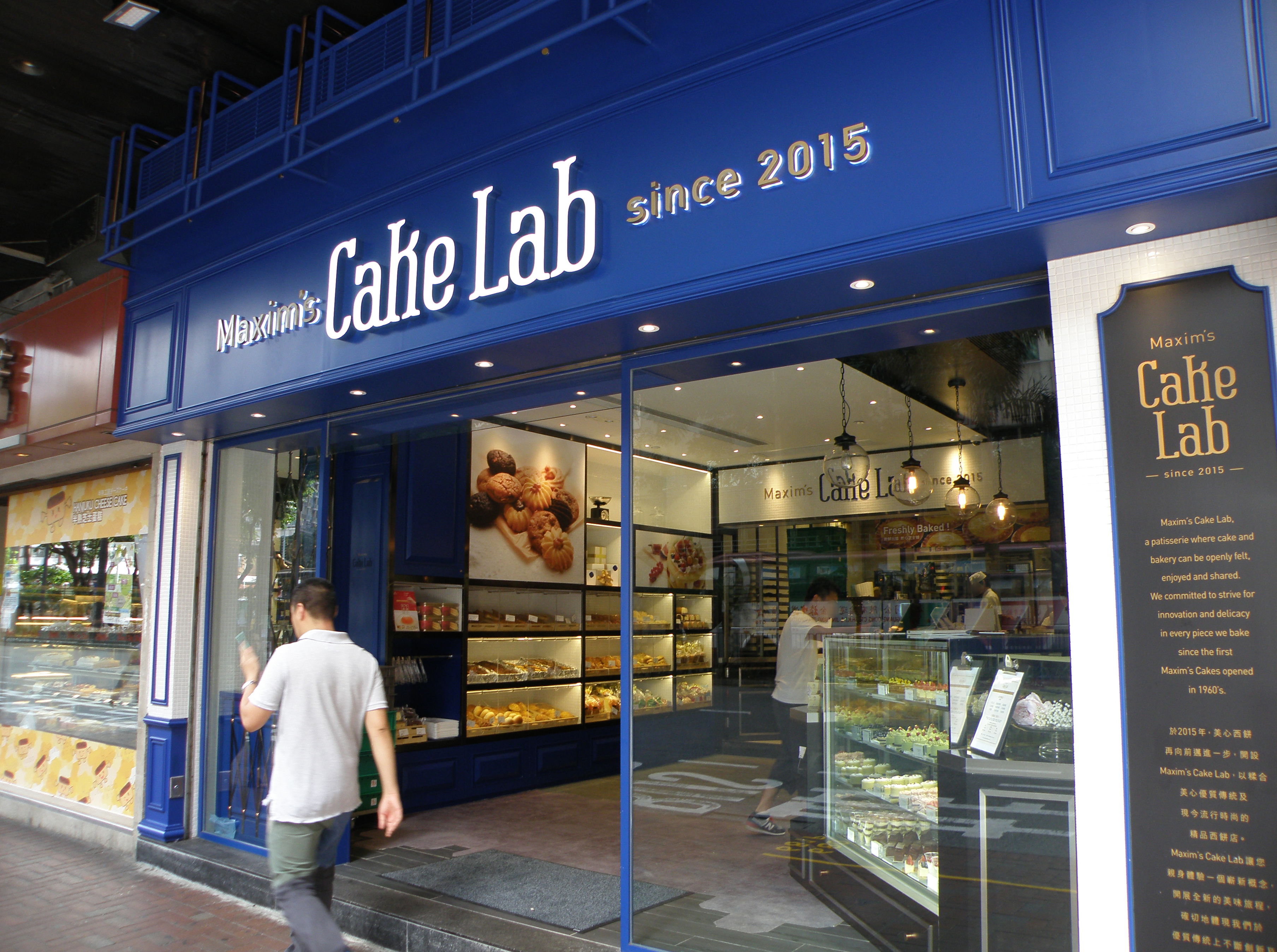 Maxim's Cake Lab in Wan Chai, Hong Kong.